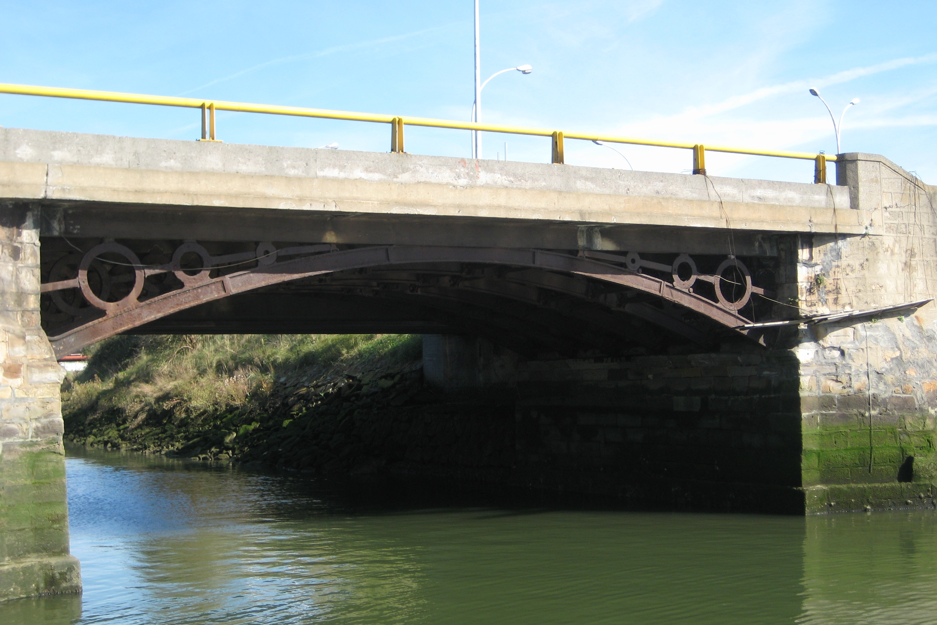 Bridge over Udondo-Gobelas river, in Leioa, Biscay.